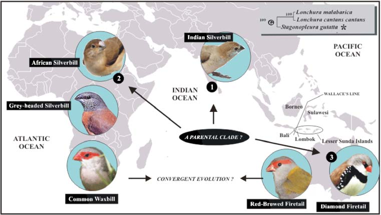 Origin of Estrildids.